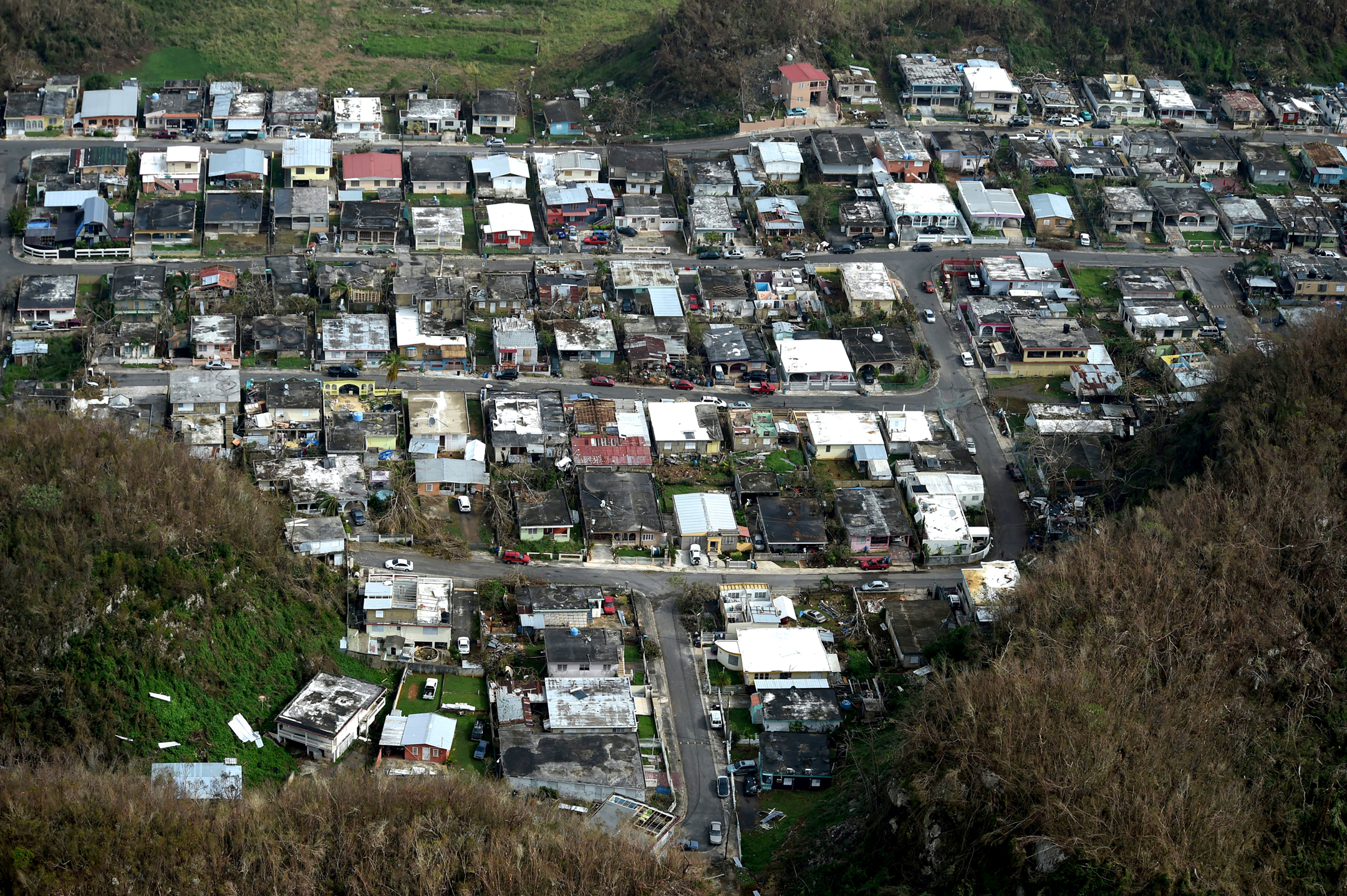 A neighborhood in Puerto Rico was heavily damaged by the storm. U.S. Air Force photo by A1C Nicholas Dutton